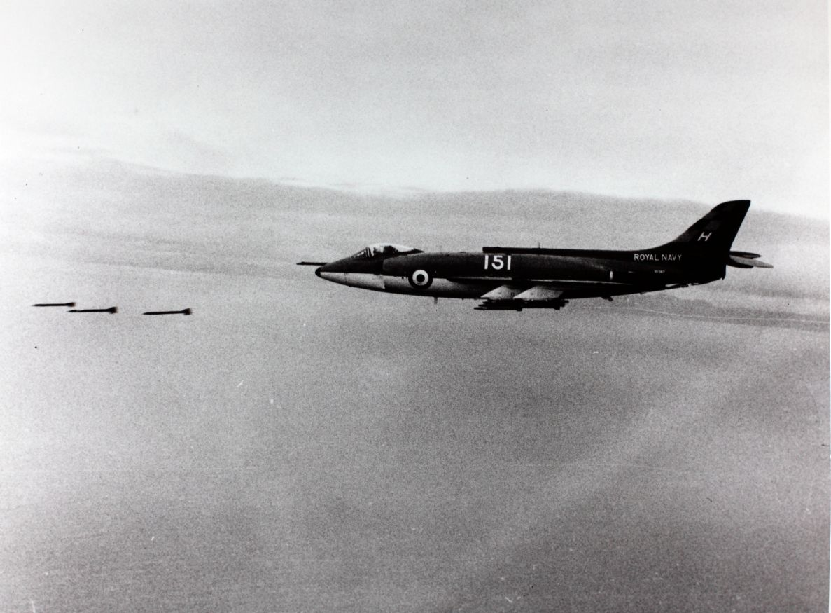 Image from the Charles Daniels Photo Collection album "British Aircraft." SOURCE INSTITUTION: San Diego Air and Space Museum Archive